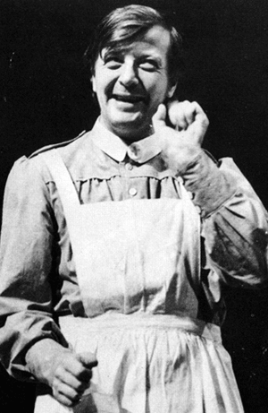 Kent Andersson acting as nurse in the play Hemmet Kent Andersson som sjuksyster i Hemmet